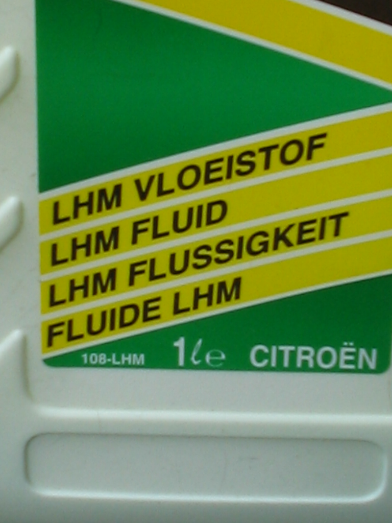 Citroën LHM suspension oil, 1 liter pack